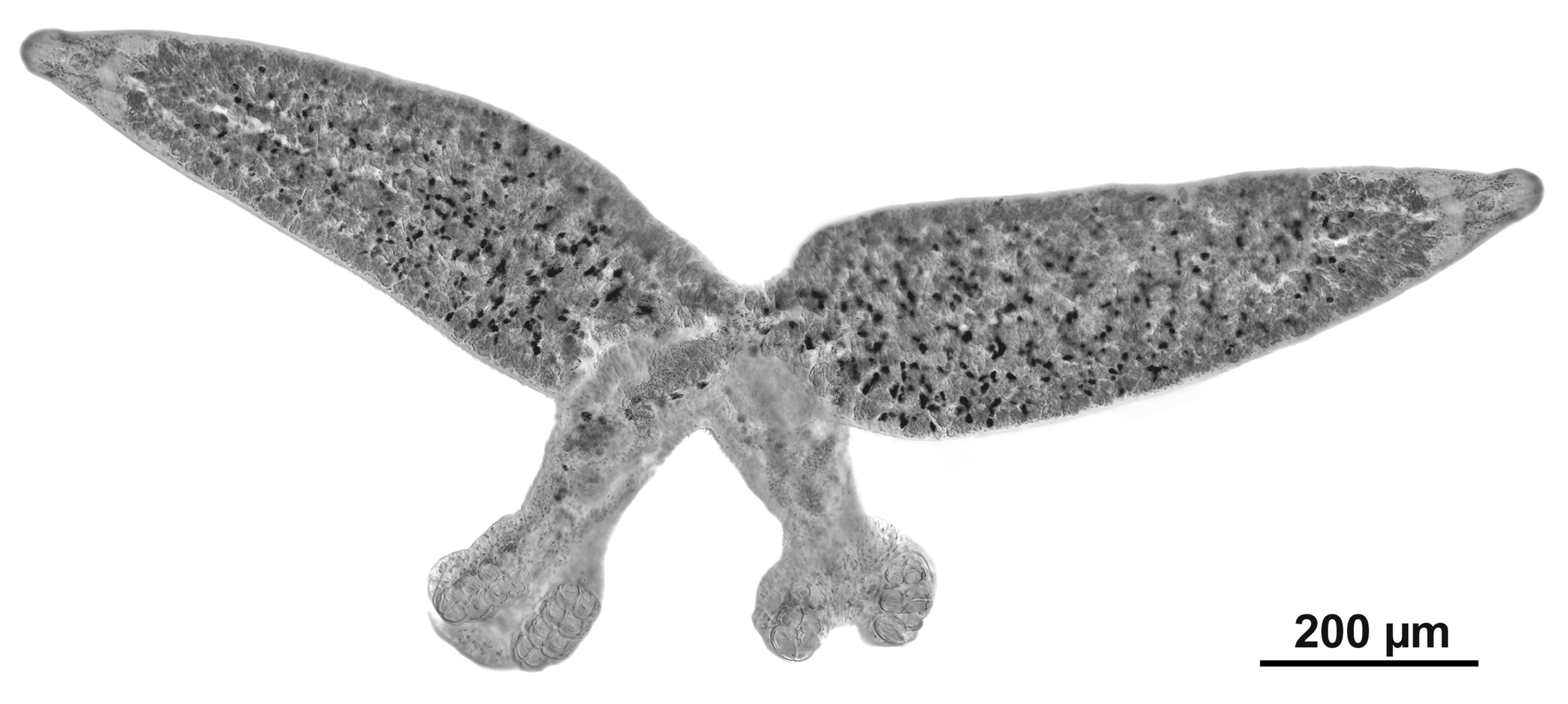 Figure 1 of paper (modified) Paradiplozoon hemiculteri. Overall total.